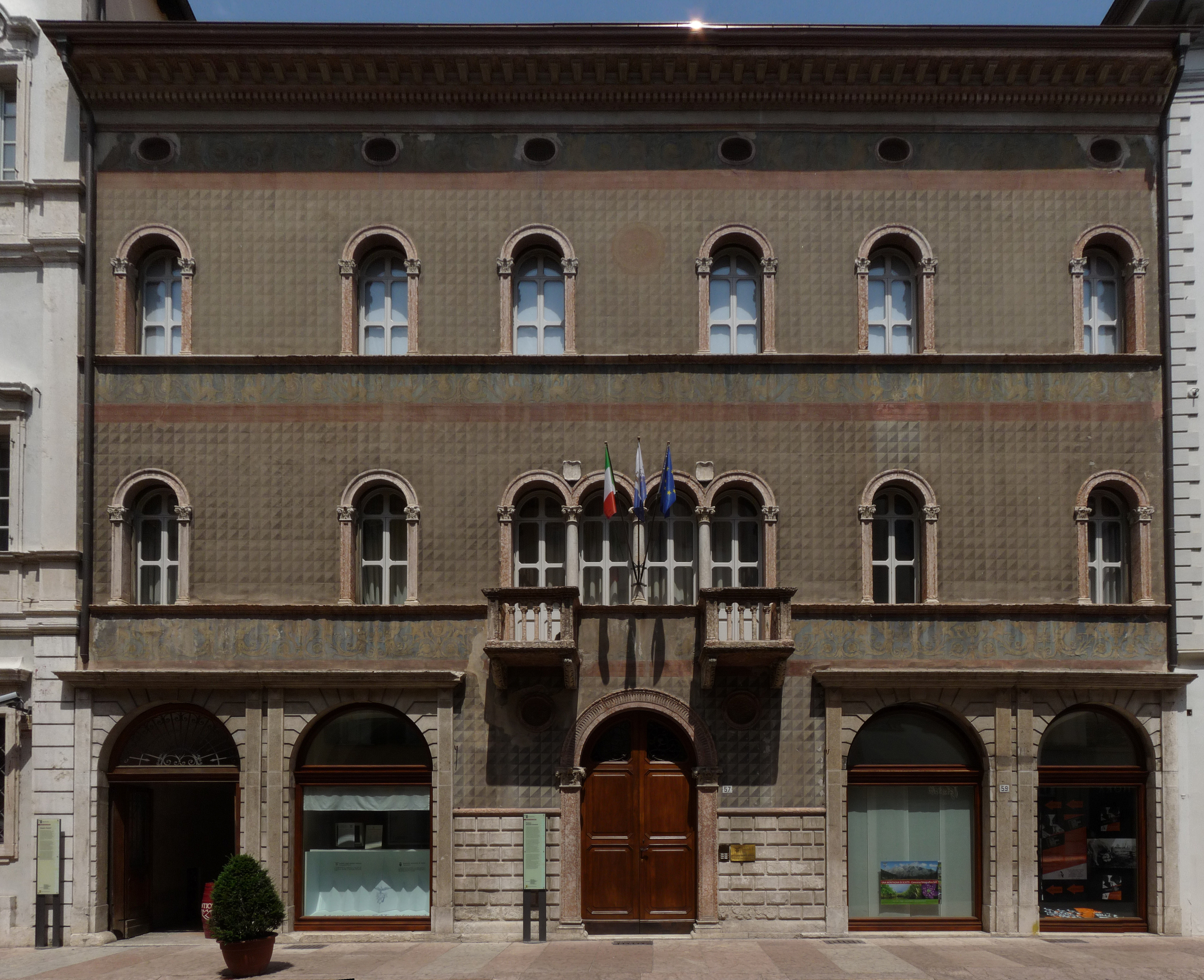 Trento (Italy): front of Palazzo Saracini Cresseri (half of the XVI century). The last floor (with the six oval openings) and the decoration were added in the XIX century. The four lateral arches were added in 1922.